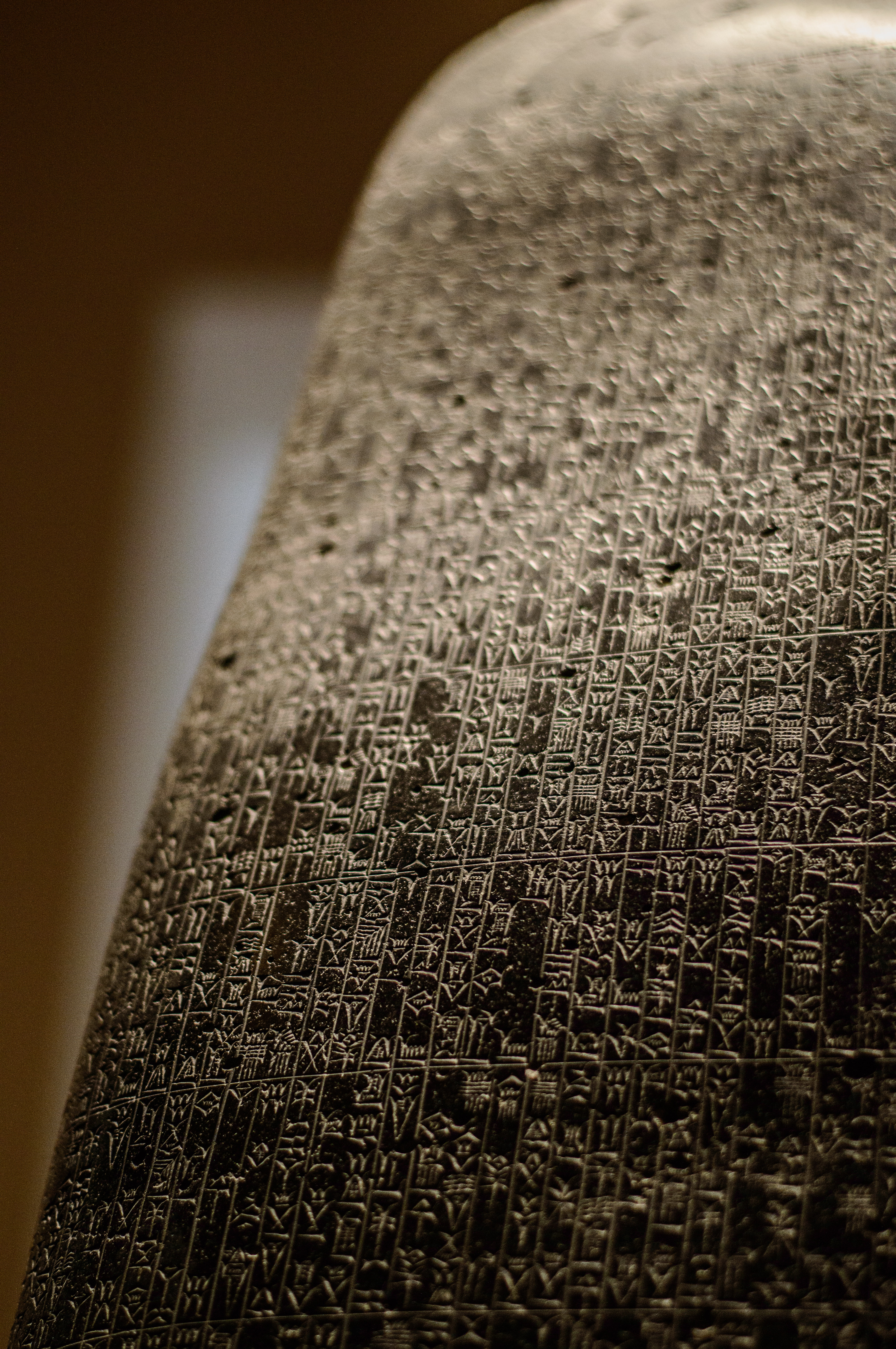 Code of Hammurabi